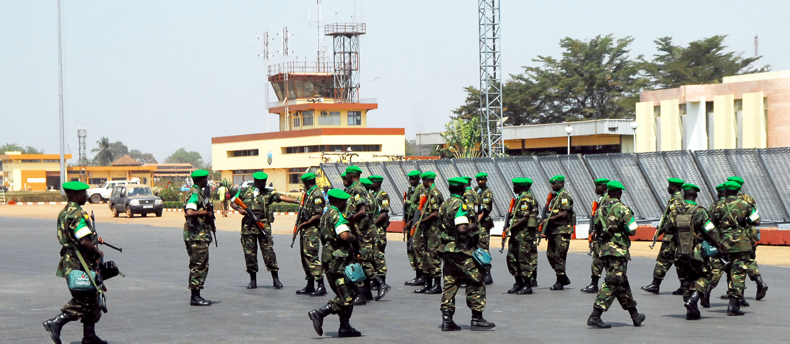 Members of the Rwanda Defense Force move into formation after arriving in Bangui, Central African Republic (CAR), Jan. 16, 2014. The Rwandans flew from their home country aboard a U.S. Air Force C-17 Globemaster III aircraft. U.S. forces were dispatched to provide airlift assistance to multinational troops in support of an African Union effort to quell violence in the CAR.